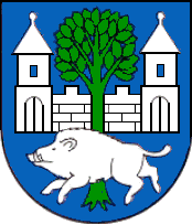 Coat of arms of Malacky, Slovakia